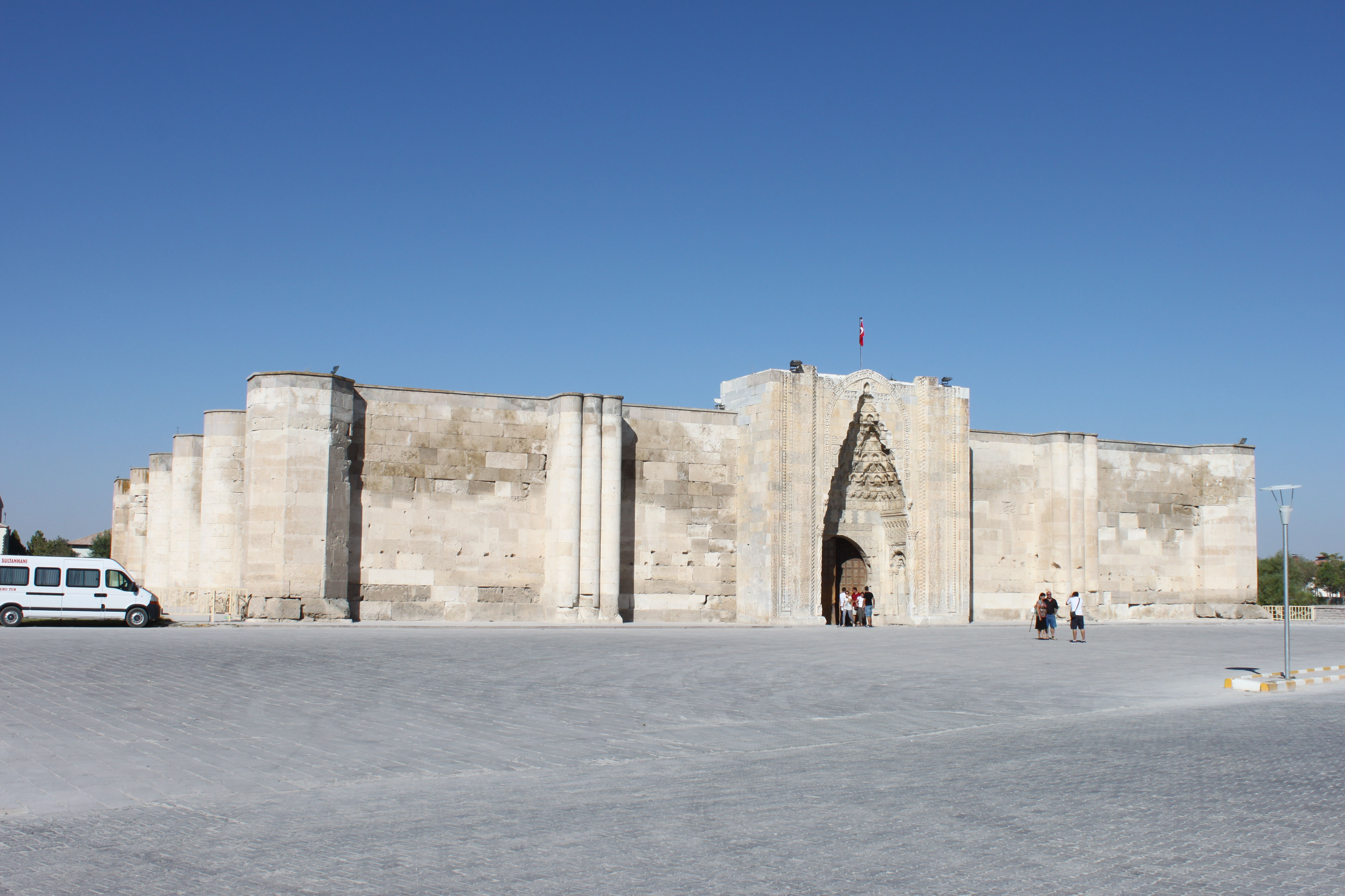 Sultan Hanı Kervansaray; North side, built 1229-36 under Sultan Kai Kobad I.